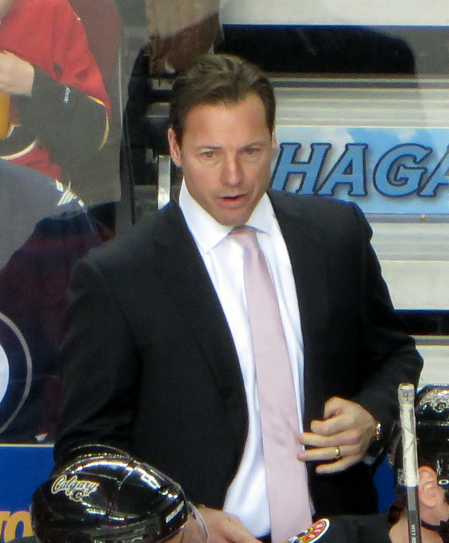 Calgary Flames assistant coach, and former NHL forward, Martin Gelinas during a National Hockey League game.